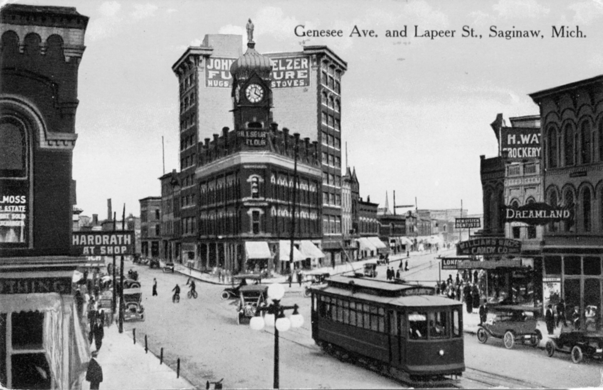 Intersection of East Genesee, Lapeer and S. Jefferson Avenues showing the Tower Block.